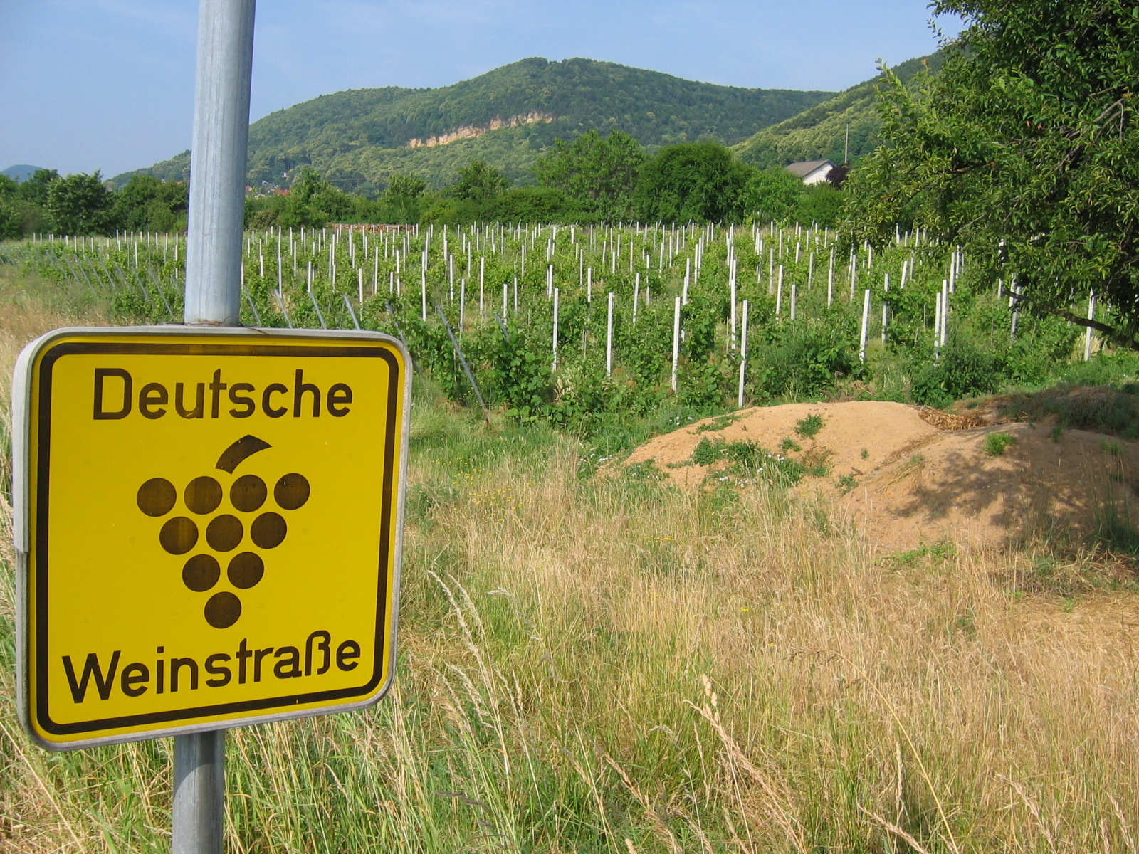 Photograph: Pascal Auricht Datum: Juni 2005